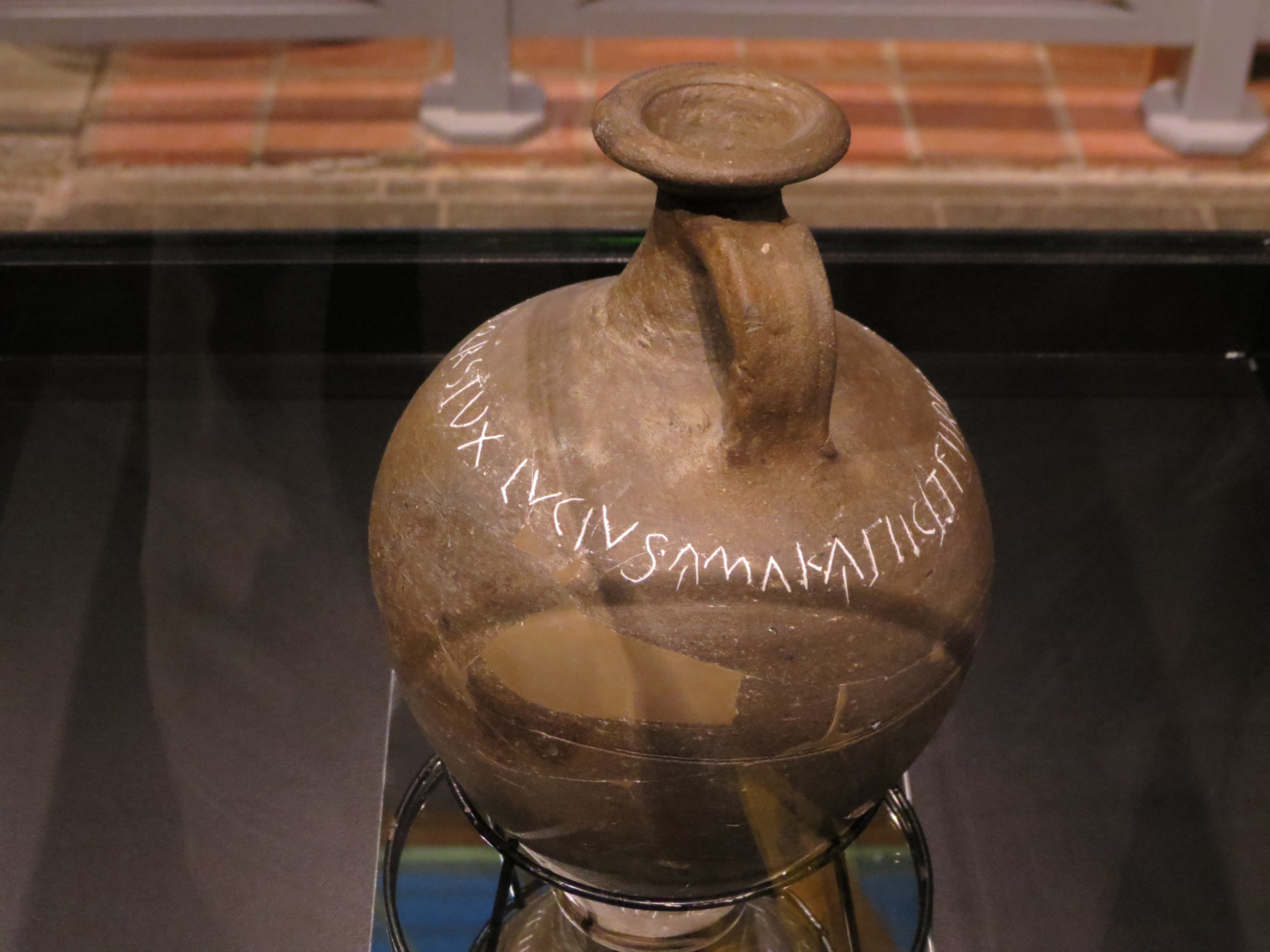 Roman jar by Lucius Ferenius in Coriovallum, Germania Inferior, on display in the Thermenmuseum, Heerlen, The Netherlands